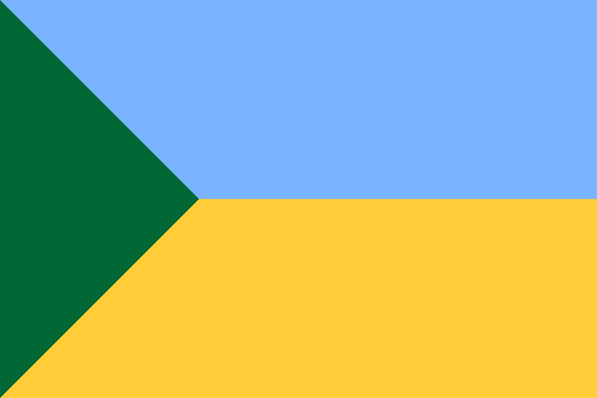 State flag of Green Ukraine.